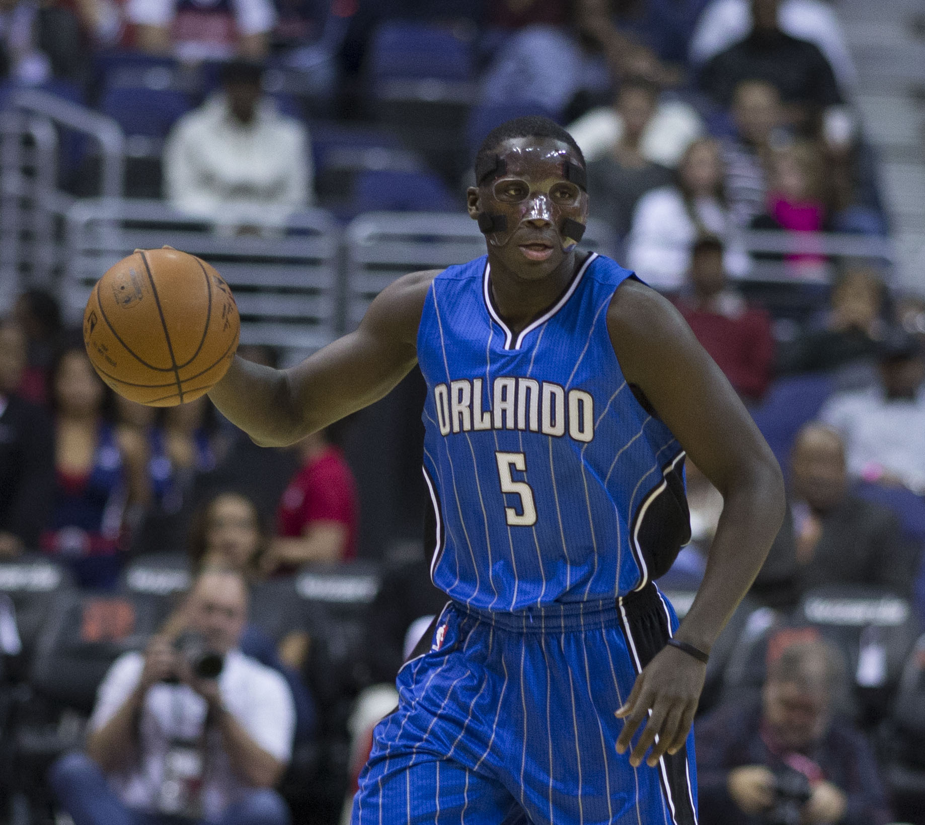 Magic at Wizards 11/15/14